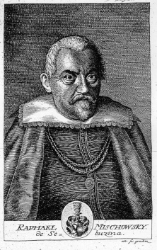 Raphael Sobiehrd-Mnishovsky of Sebuzin and of Horstein (1580-1644, Bohemian lawyer, writer and diplomat Also named: Raphael Mischowsky de Sebuzina